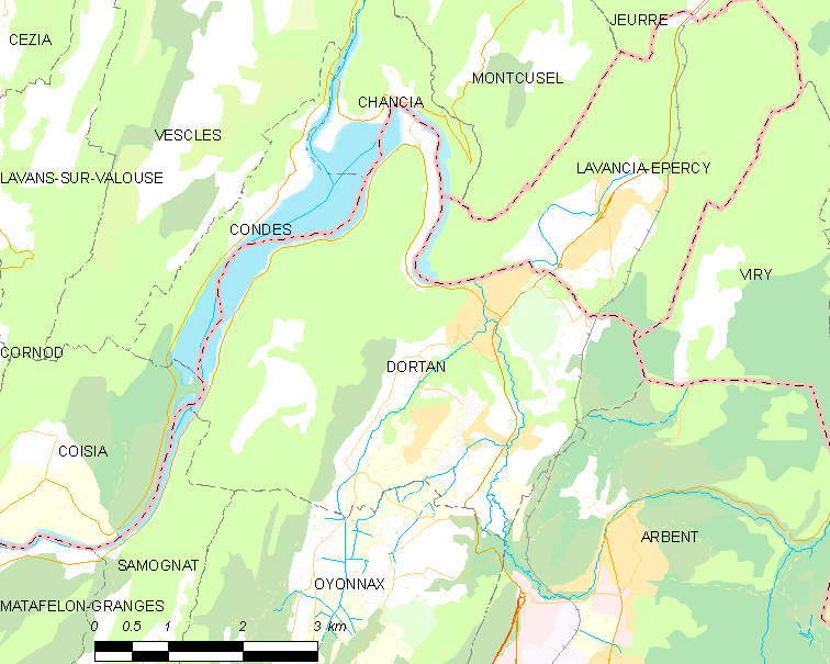 Map of French commune: Dortan Map commune FR insee code 01148.png